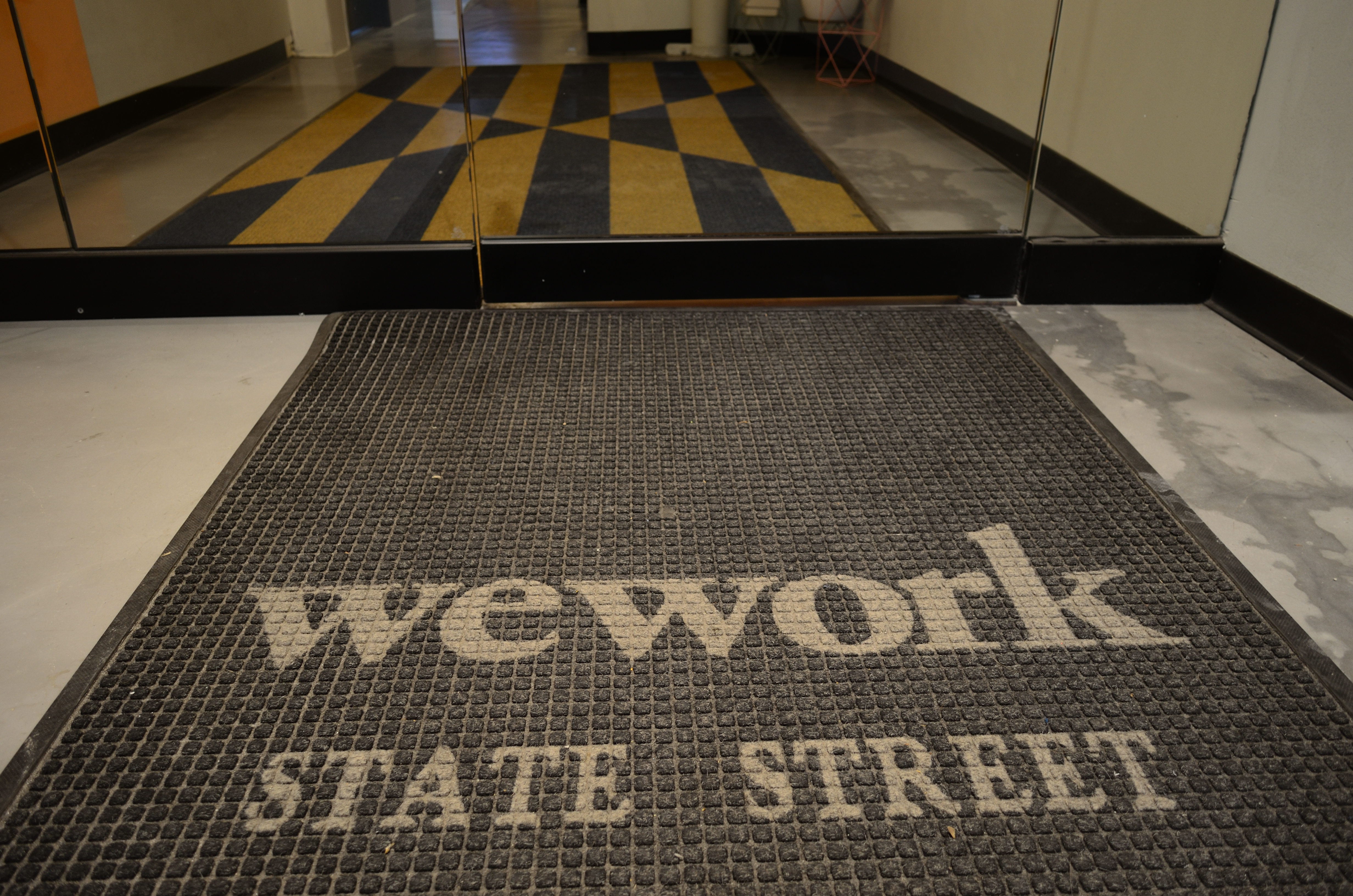 WeWork at 1 W Monroe St (Monroe & State), Chicago, IL 60603, United States